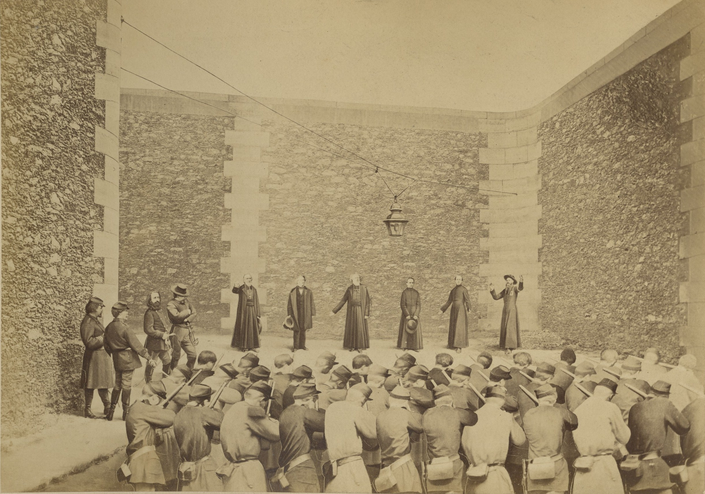 Following France’s defeat in the Franco-Prussian War and the fall of Napoleon III, thousands of Parisians revolted against the new royalist-leaning government and declared Paris an independent commune. Weeks of fighting ensued, during which Versailles troops attacked the city while the Communards threw up barricades, shot hostages, and burned government buildings. Soon afterward, Appert, a Parisian portrait photographer, issued “Crimes of the Commune,” a tendentious series of nine photographs of the insurrection that emphasized the criminal brutality of the rebels. Although based on real events, the photographs were utterly fabricated. Appert hired actors to restage each scene in his studio then cut and pasted the figures onto the appropriate backgrounds; atop the actors’ bodies he pasted headshots of the Commune’s key participants. The photographs were later banned by the French government for “disturbing the public peace” by sustaining anti-Communard sentiments—a testament to their effectiveness as political propaganda.